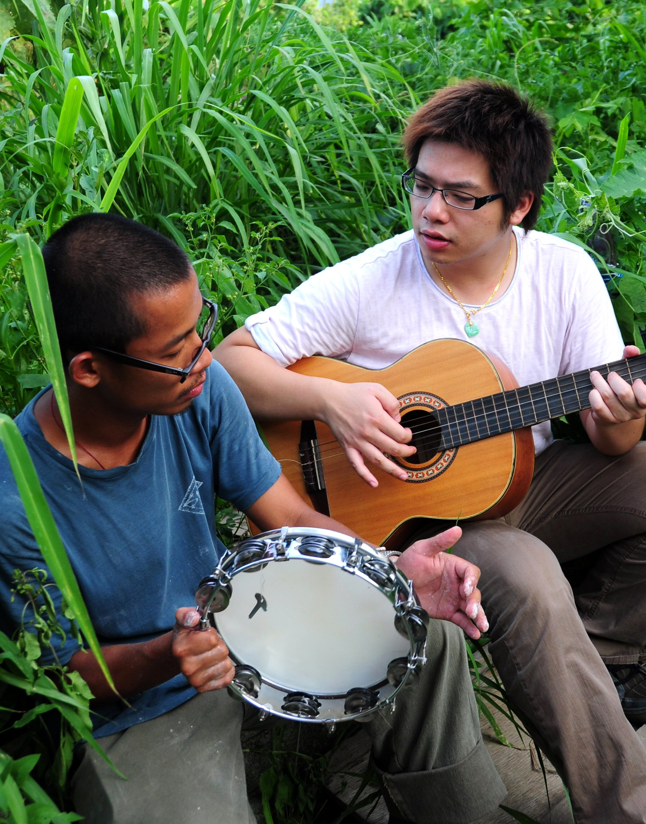 Chow Si Chung & a guitarist